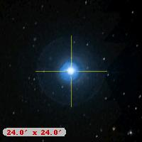 Lambda Bootis is a high proper-motion star of spectral type A0p with a parallax of 32.91 mas, It is a UV source (TD1).